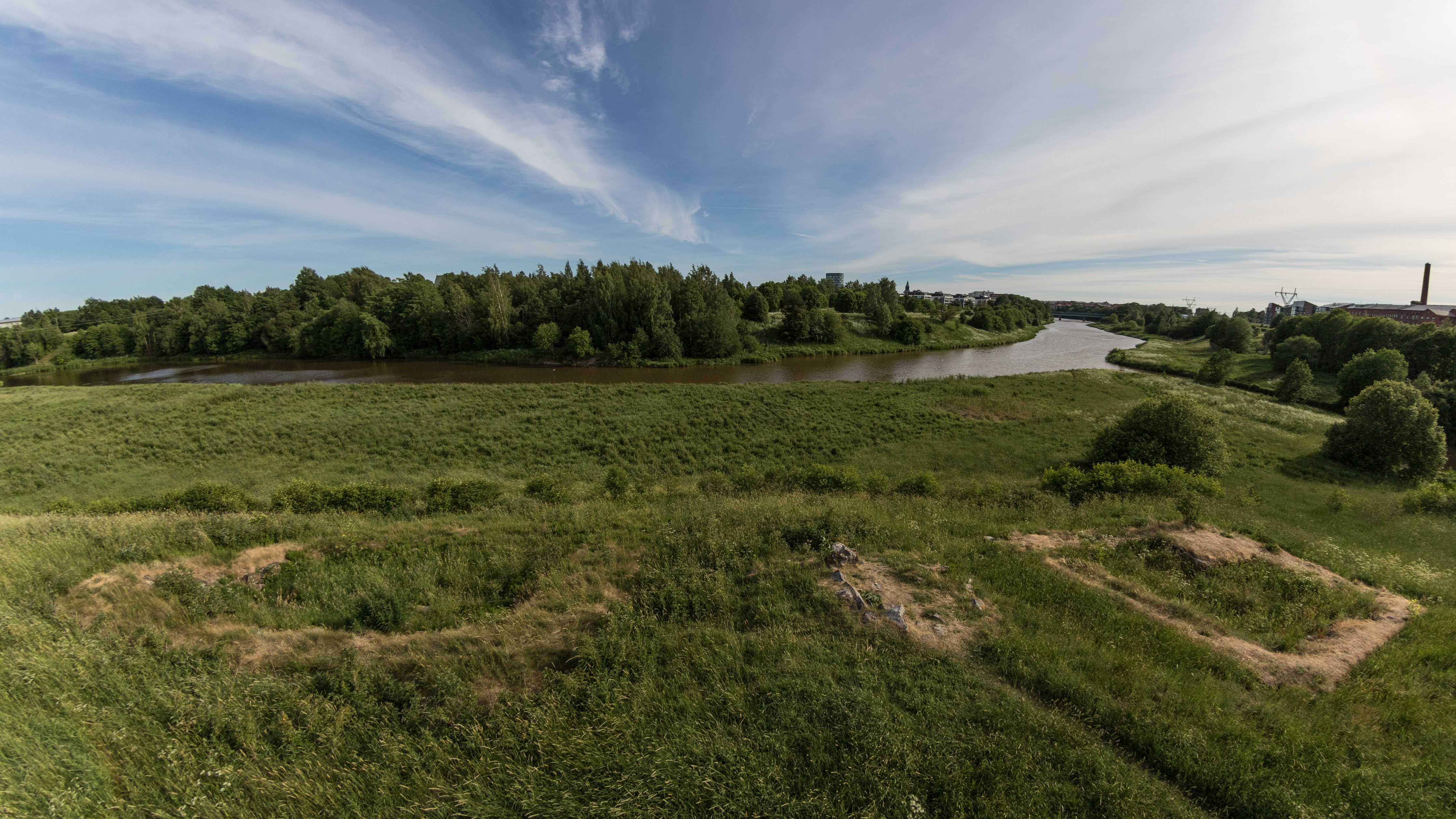 Foundations of building at the site of old Koroinen church and bishops residence. Aura river on the background.